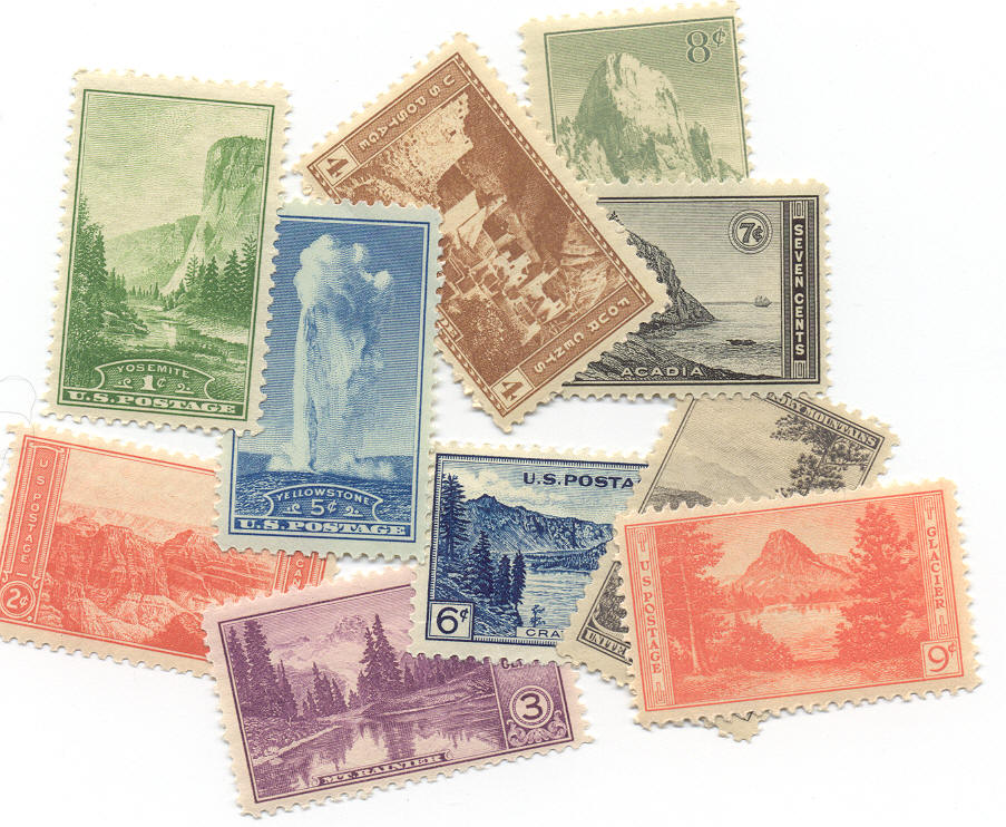 Ten stamps issued by the U.S. Post Office in 1934 in commenoration of the reorganization and expansion of the National Park Service.